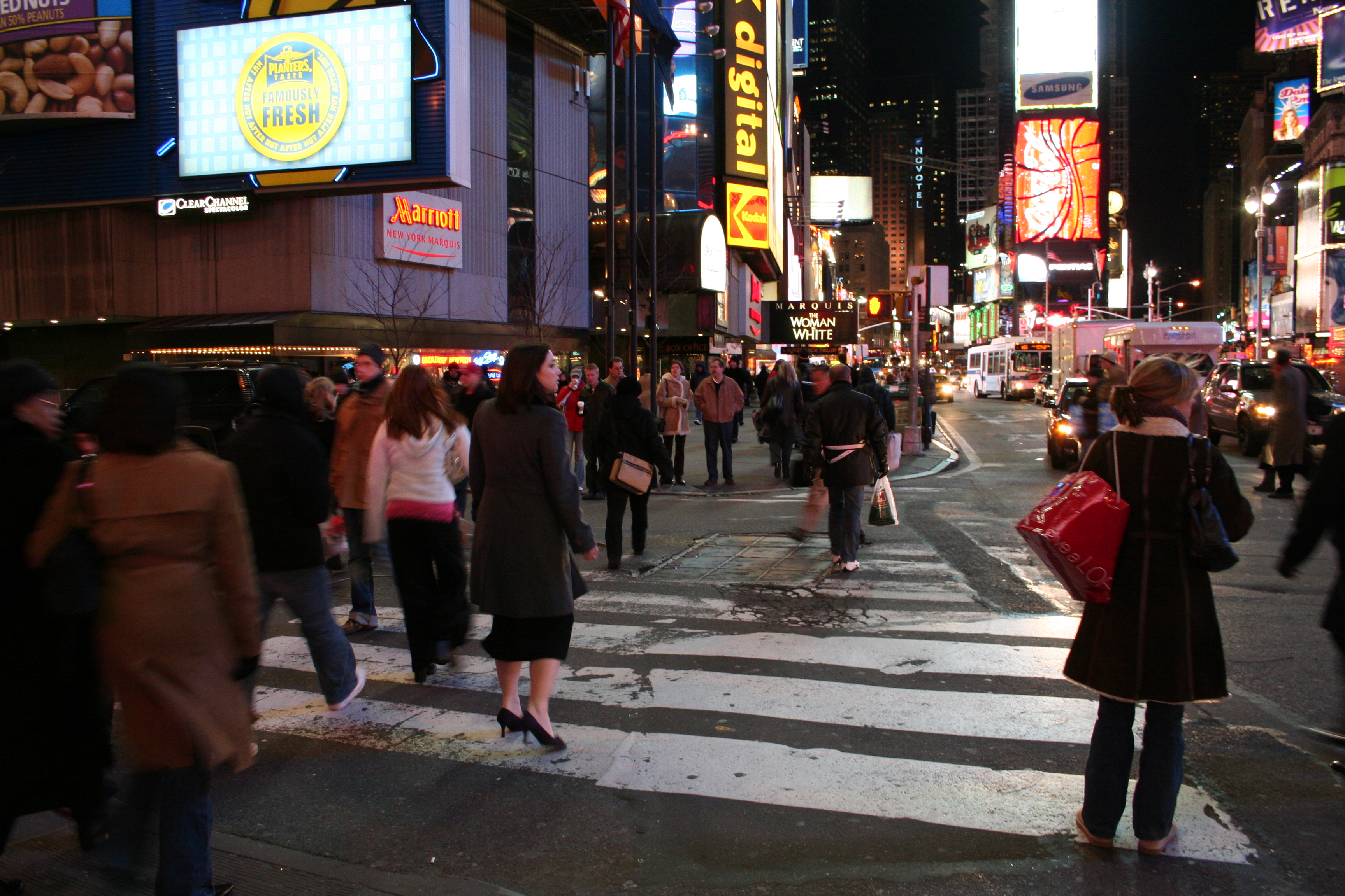 Photographed by and copyright of (c) David Corby (User:Miskatonic, uploader) 2006 Times Square December 2005